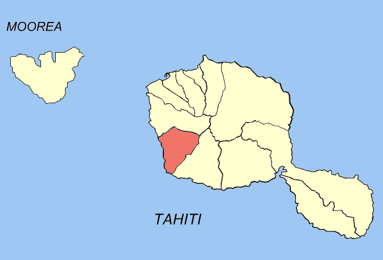 Map of Tahitian communes — Paea